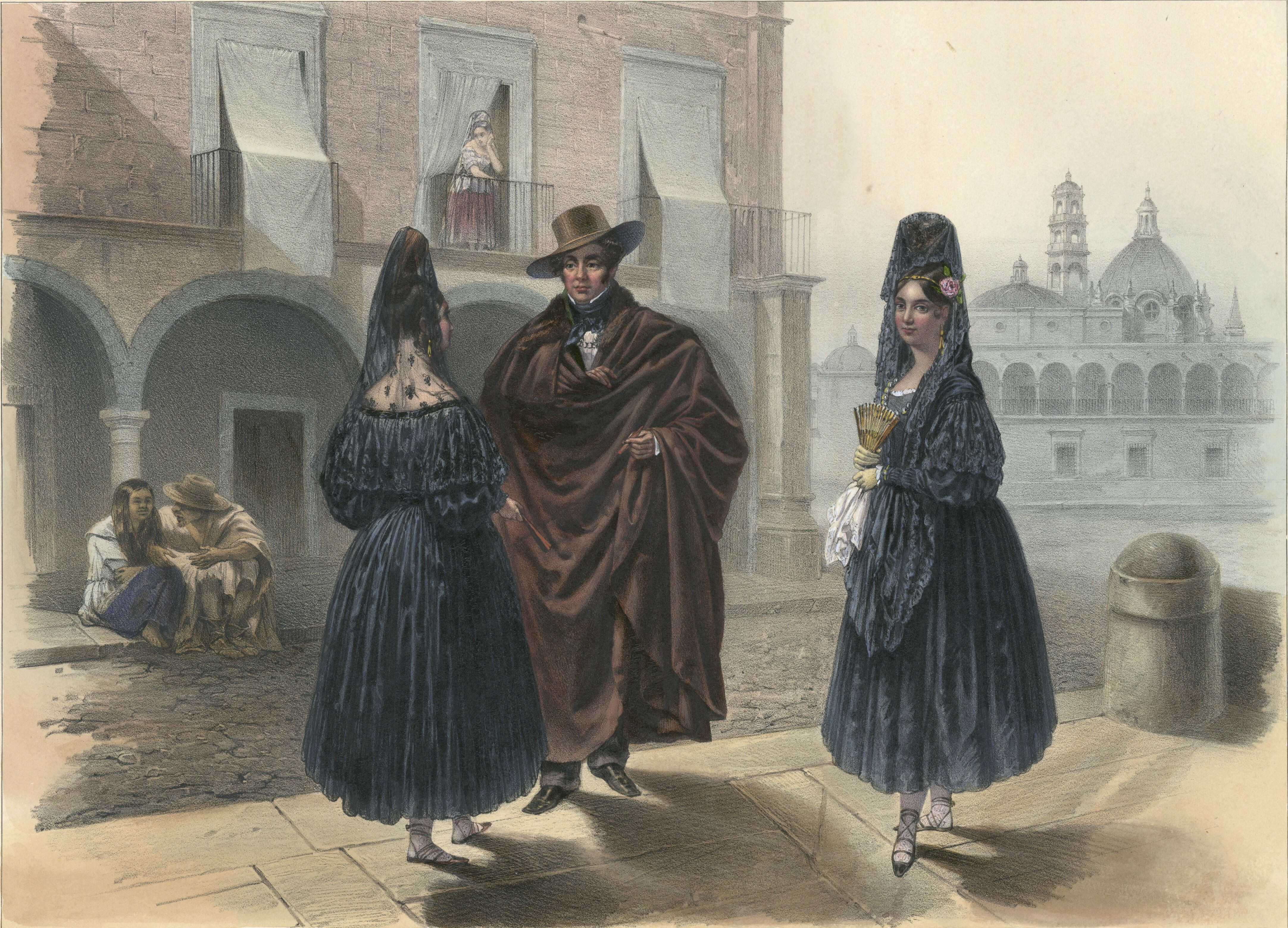 La Mantilla, costume group. Hand-colored lithograph highlighted with gum arabic. Original size (neat lines): 37.6×27.5 cm.